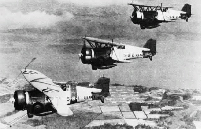 Three U.S. Navy Curtiss BF2C-1 Goshawk fighters of bombing squadron VB-5 in 1934. 27 BF2C-1s were delivered to VB-5 on the USS Ranger (CV-4) in October 1934, but were withdrawn after a few months due to problems with the landing gear.